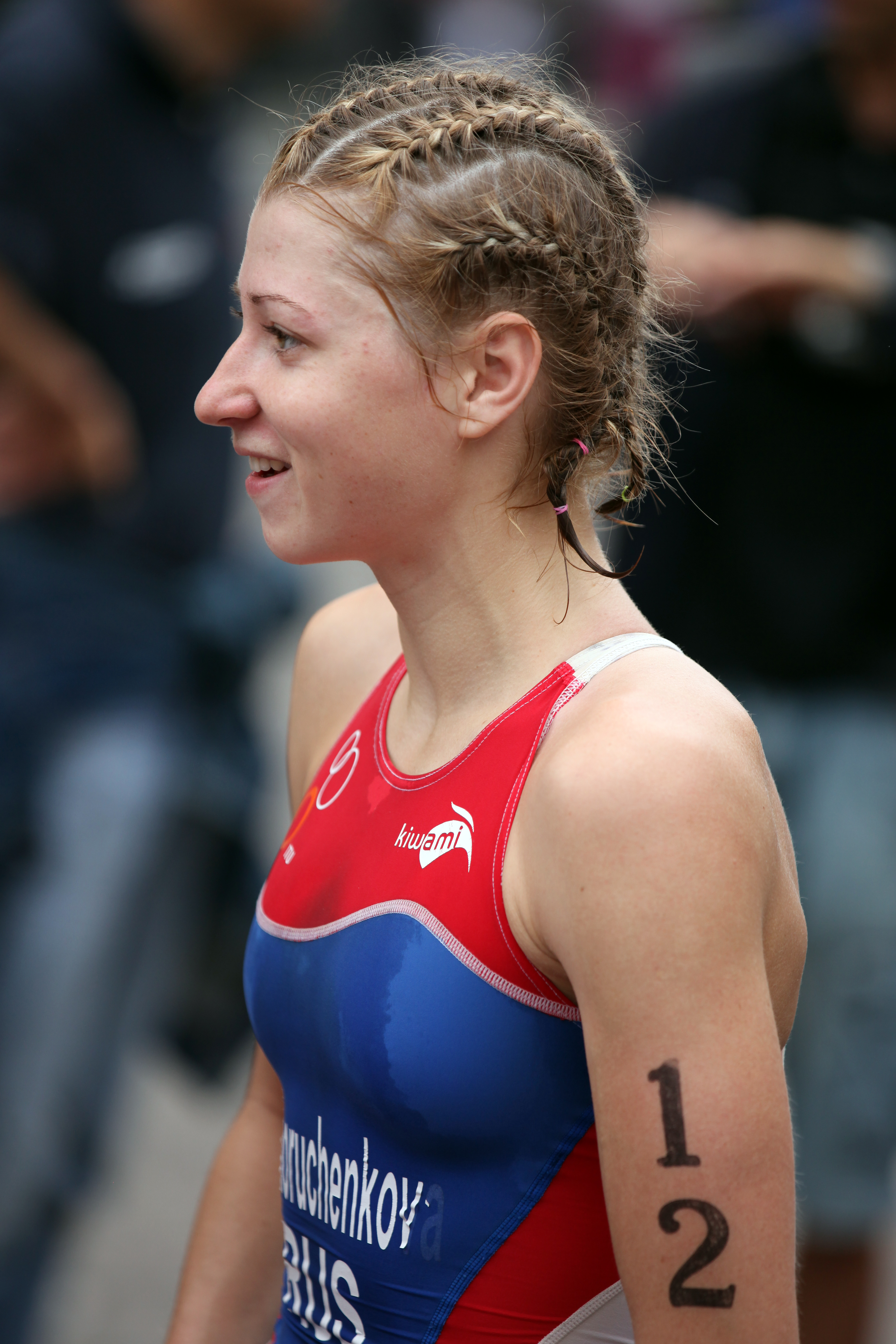 Evgeniya (Yevgeniya) Sukhoruchenkova Koshelnikova (Евгения Вячеславовна Кошельникова Сухорученкова) at the Triathlon Sprint European Cup in Cremona.